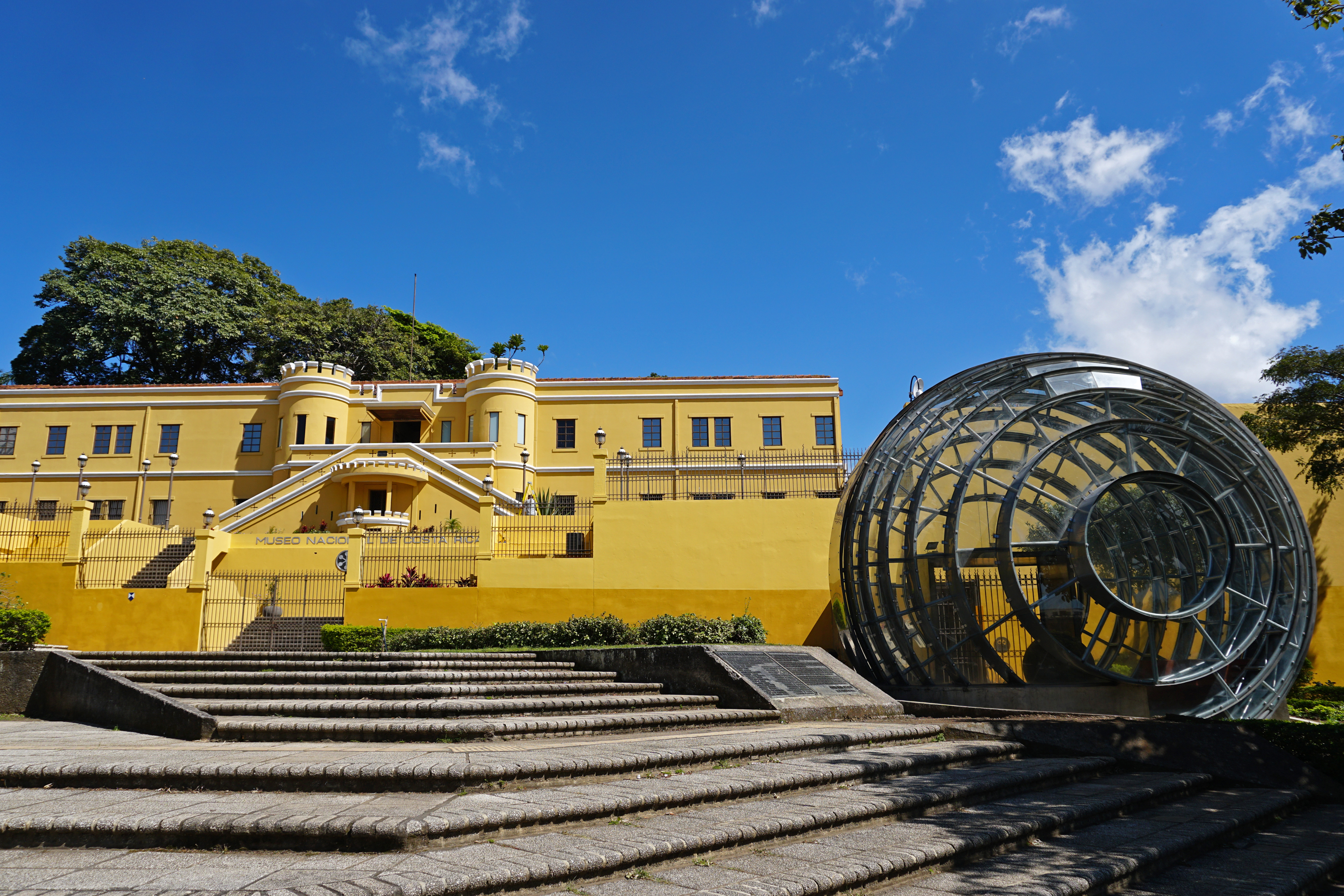 Esferas de piedra de Diquis exhibida dentro de una estructura esférica de metal y vidrio en la Plaza de la Democracia, San José, Costa Rica